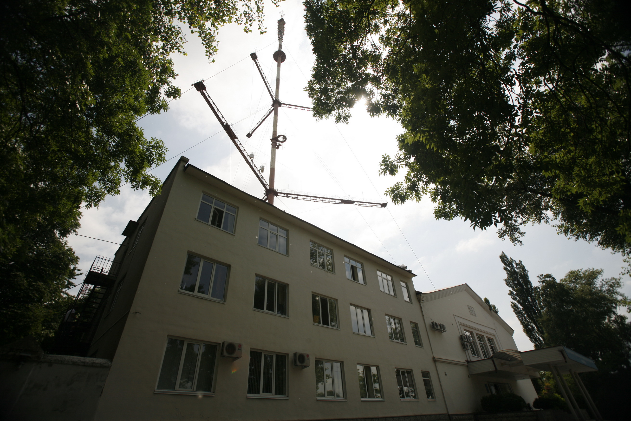 State Television and Radio Broadcasting Company "Alania"